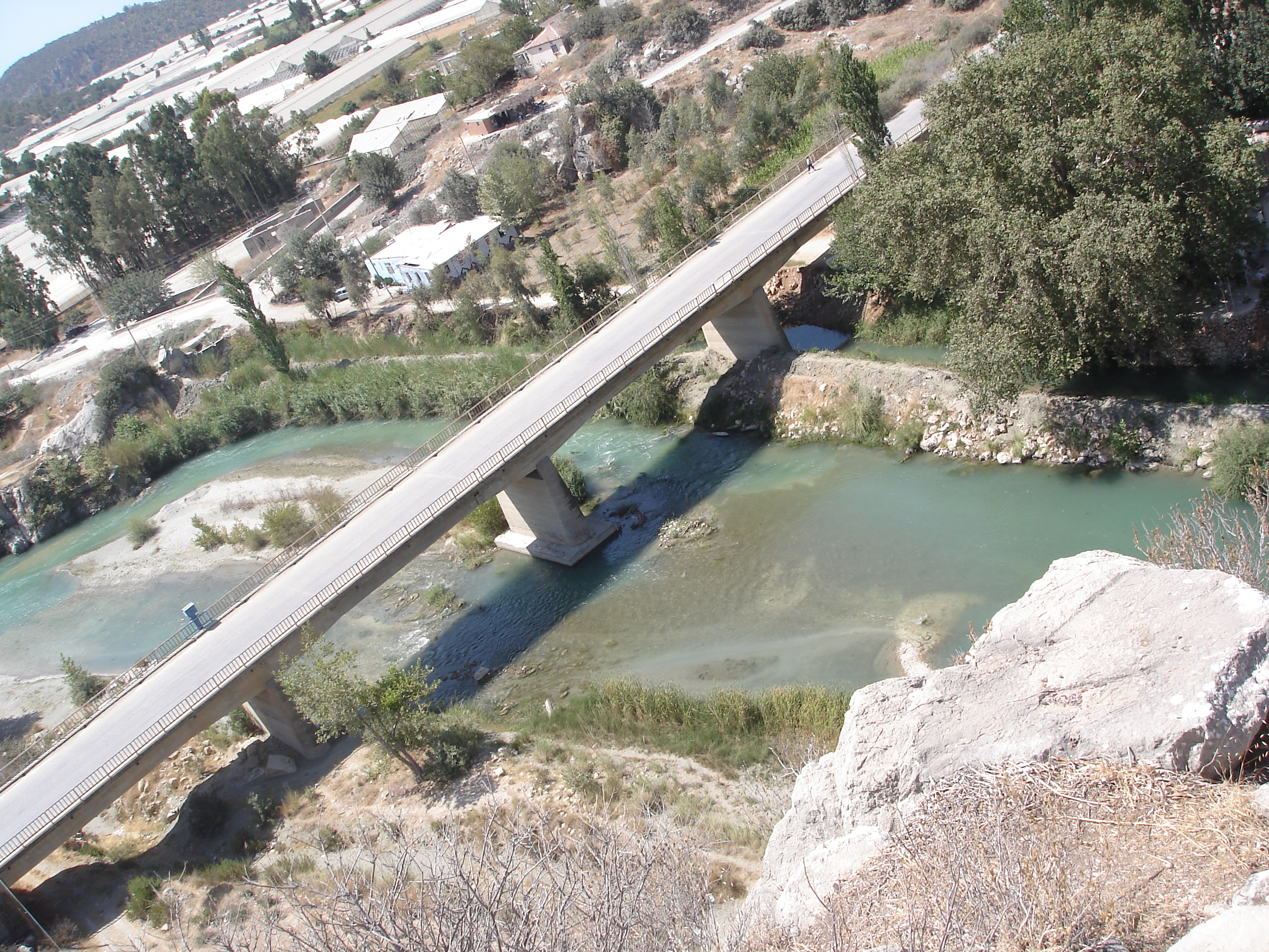 Kinik/Xanthos river